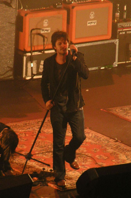 Bernard Fanning playing with Powderfinger, London Hammersmith Apollo December 6th 2007 (taken by Chris Silvey)